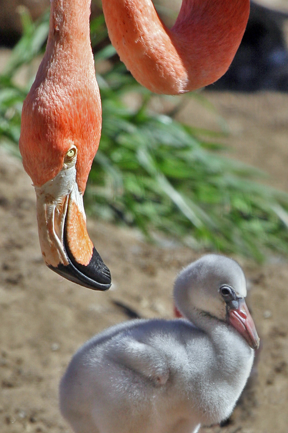 Phoenicopterus ruber adult and chick